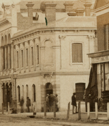 Picture of the Globe Hotel Rundle Street in approximately 1860. Photo is a zoomed version of a larger original.